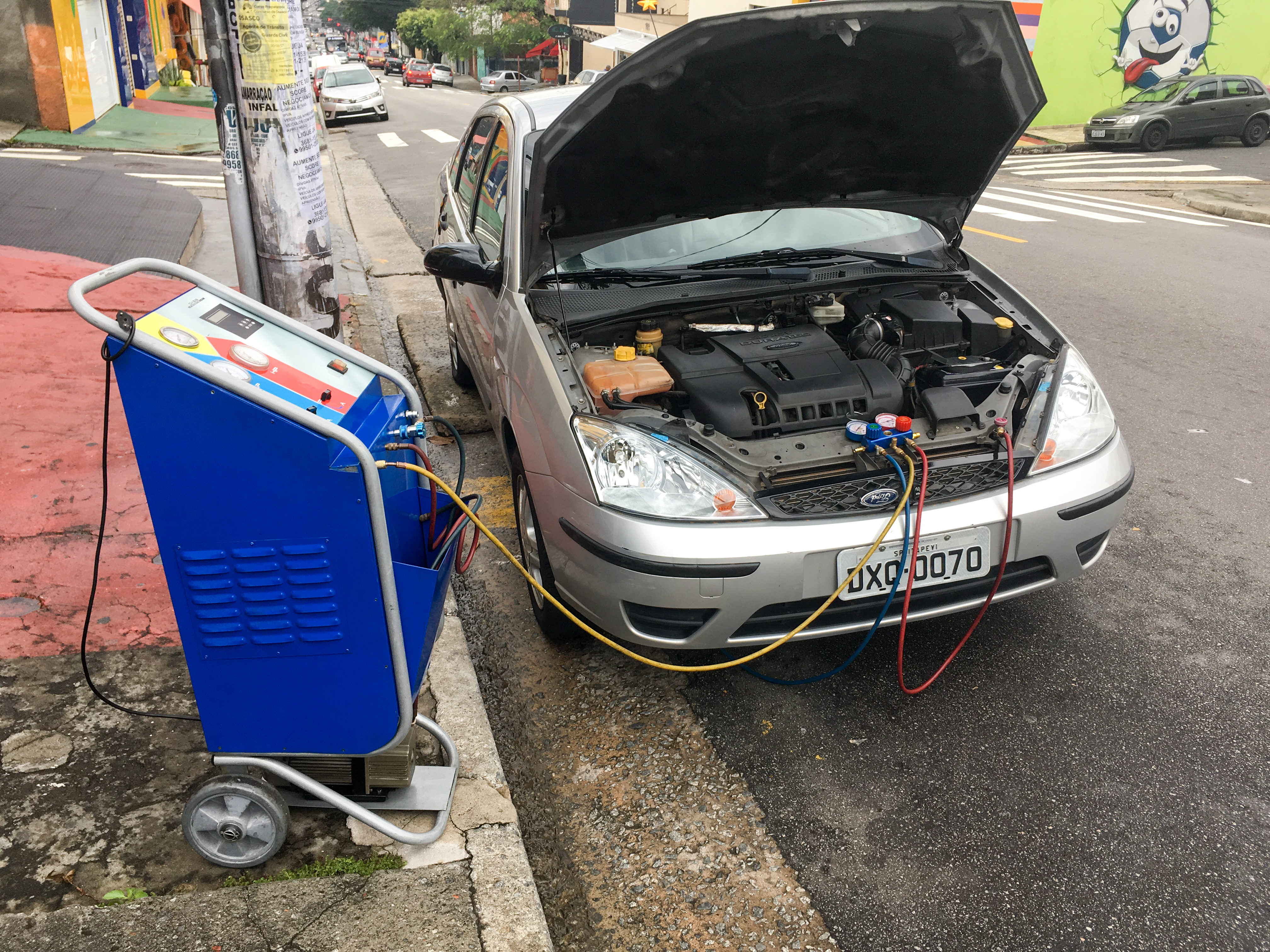 Regassing the air conditioning of a Ford Focus (Mk1, 2007) in São Paulo, Brazil